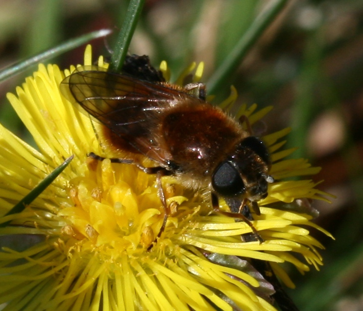 Cheilosia grossa (female)